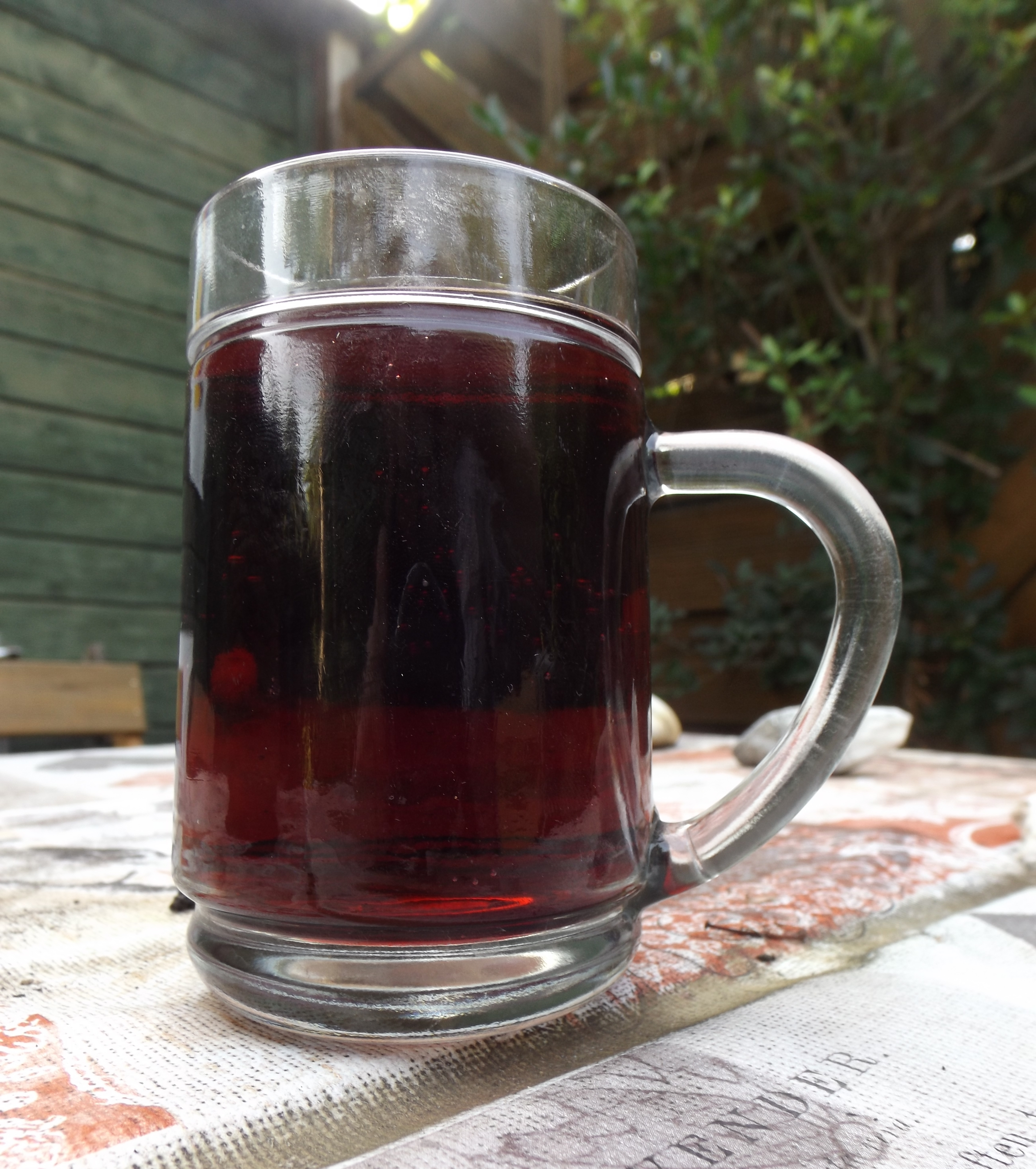 A white spritzer in Lower Austria, in the southern surroundings of Vienna